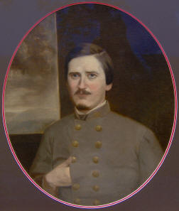 Major Rice E. Graves, Jr., Civil War portrait, 1862. Note: Only existing portrait remaining of Rice E. Graves. There were two identical original portraits made in 1862, one was with Major Graves' mother and the other hung in the Daviess County Courthouse at Owensboro, KY. The courthouse copy became missing during a complete renovation of the facility in 1964.